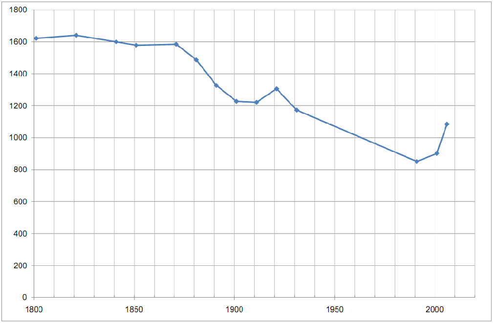 A graph of the population of the coastal village of St Cyrus in Aberdeenshire from 1801 to 2006